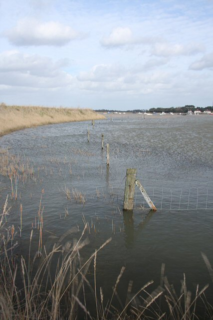 Inlet of the River Deben This inlet appears to have no current purpose, but may once have been a dock for small vessels. It dries out at low tide.